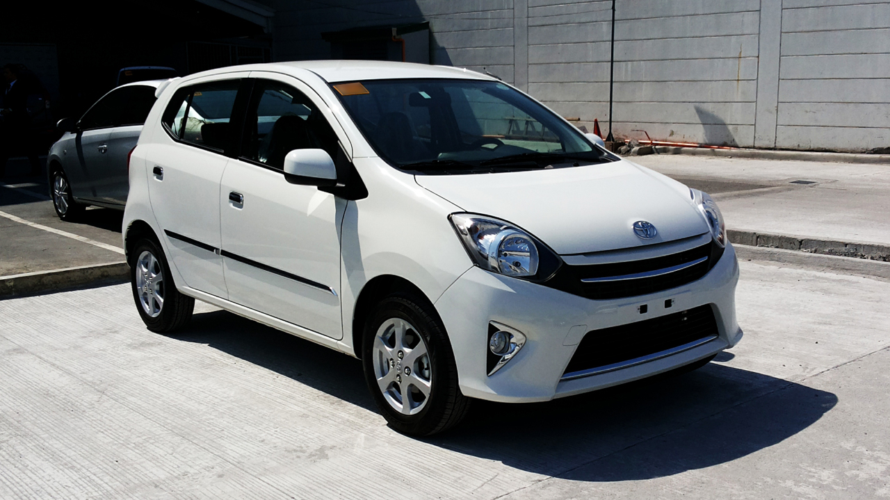 2014 Toyota Wigo G (Philippine model). Taken at Toyota Manila Bay, Pasay City, Philippines